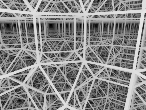 Made by me, Anton Sherwood, using Povray; the scene contains two cylinders and four mirrors